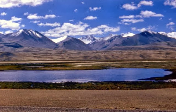 Karakul lake in Pamir